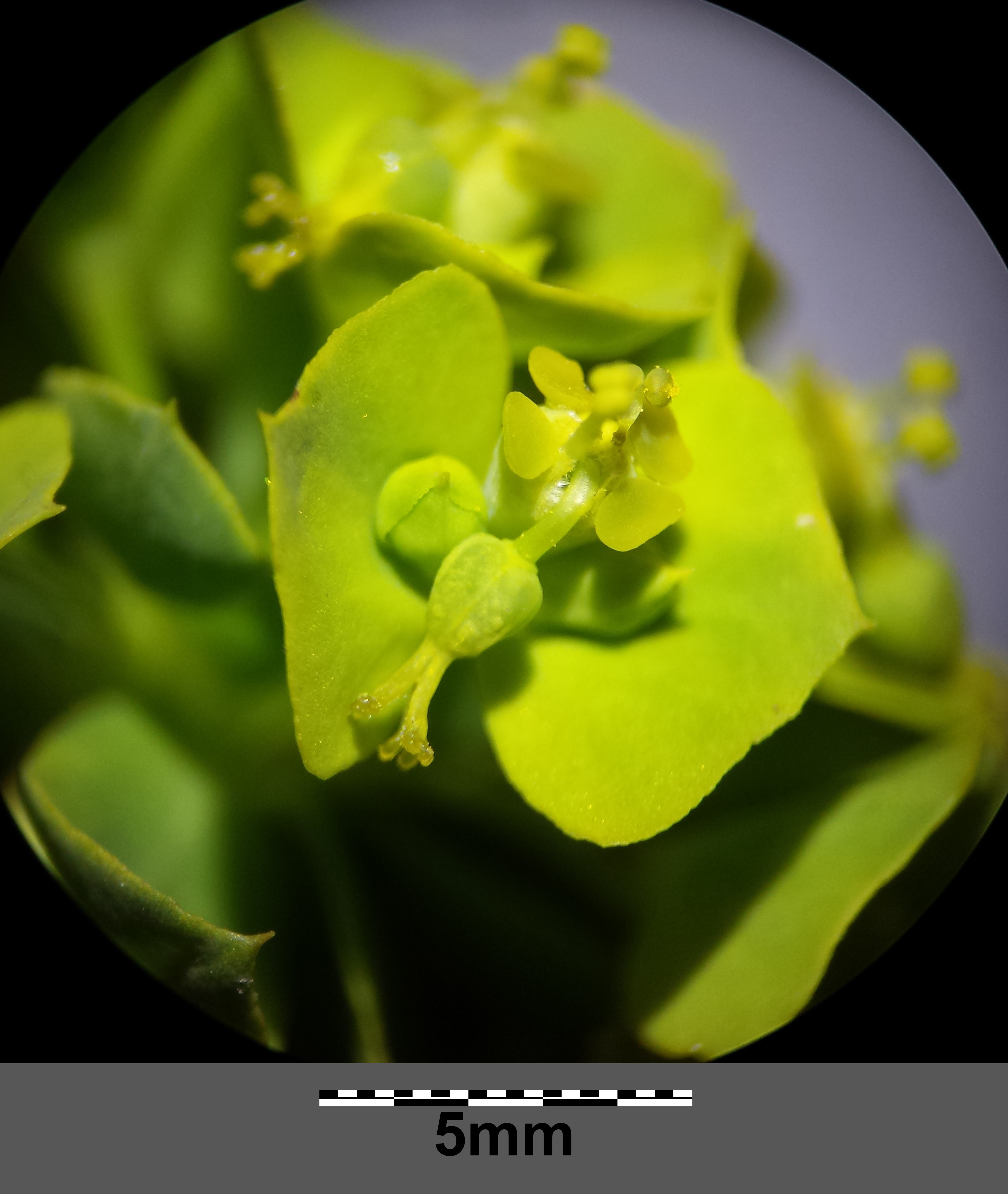 Inflorescence (detail) Taxonym: Euphorbia seguieriana ss Fischer et al. EfÖLS 2008 ISBN 978-3-85474-187-9 Location: semi-dry grasslands and wine yards to the north of Oberthern, municipality Heldenberg, district Hollabrunn, Lower Austria - ca. 300 m ü. A. Habitat: slope